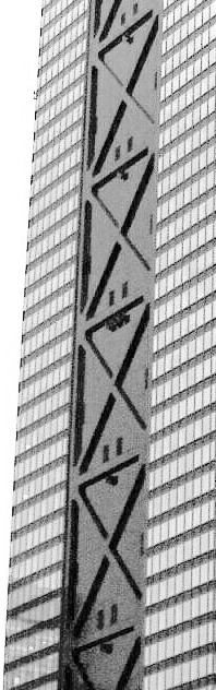 Detail of X-shaped braces on the west side of the Shinjuku Mitsui Building in Tokyo.